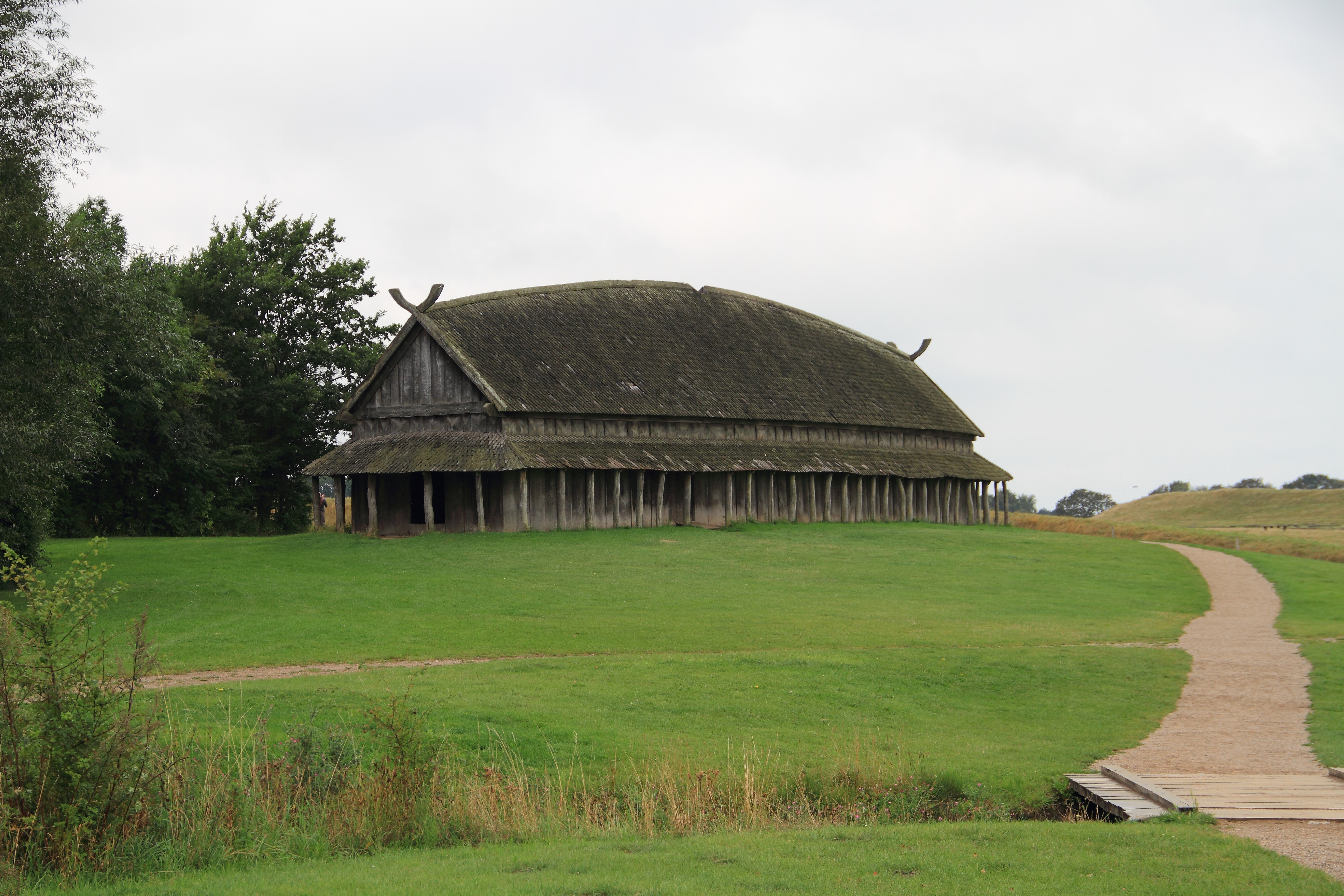 Reconstruction of vikings longhouse at open-air museum Trelleborg (Slagelse).